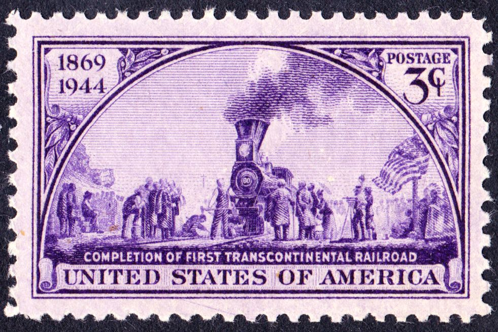 US Postage stamp, Transcontinental railroad issue, 1944, 3c.